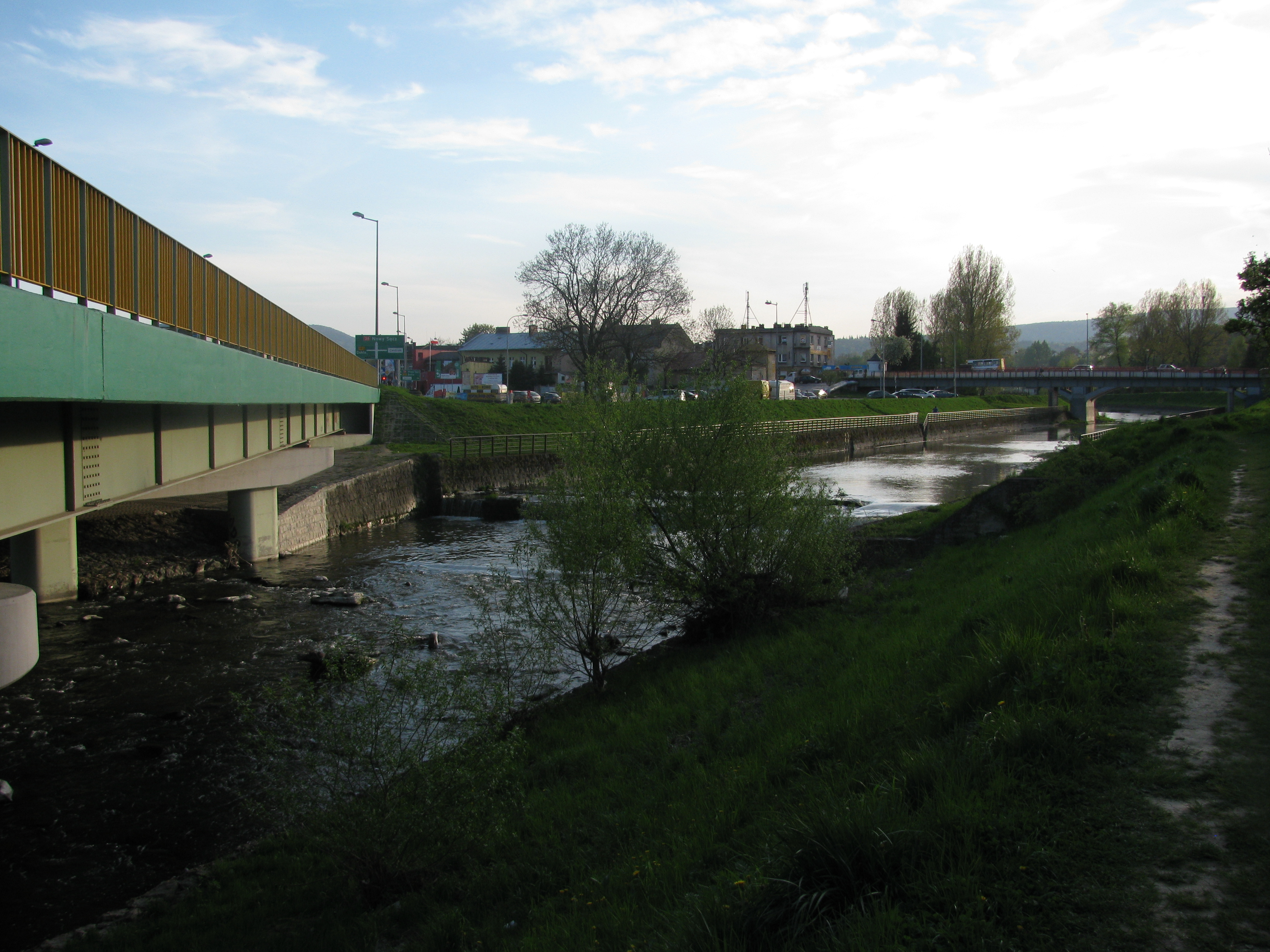 Ropa River in Gorlice